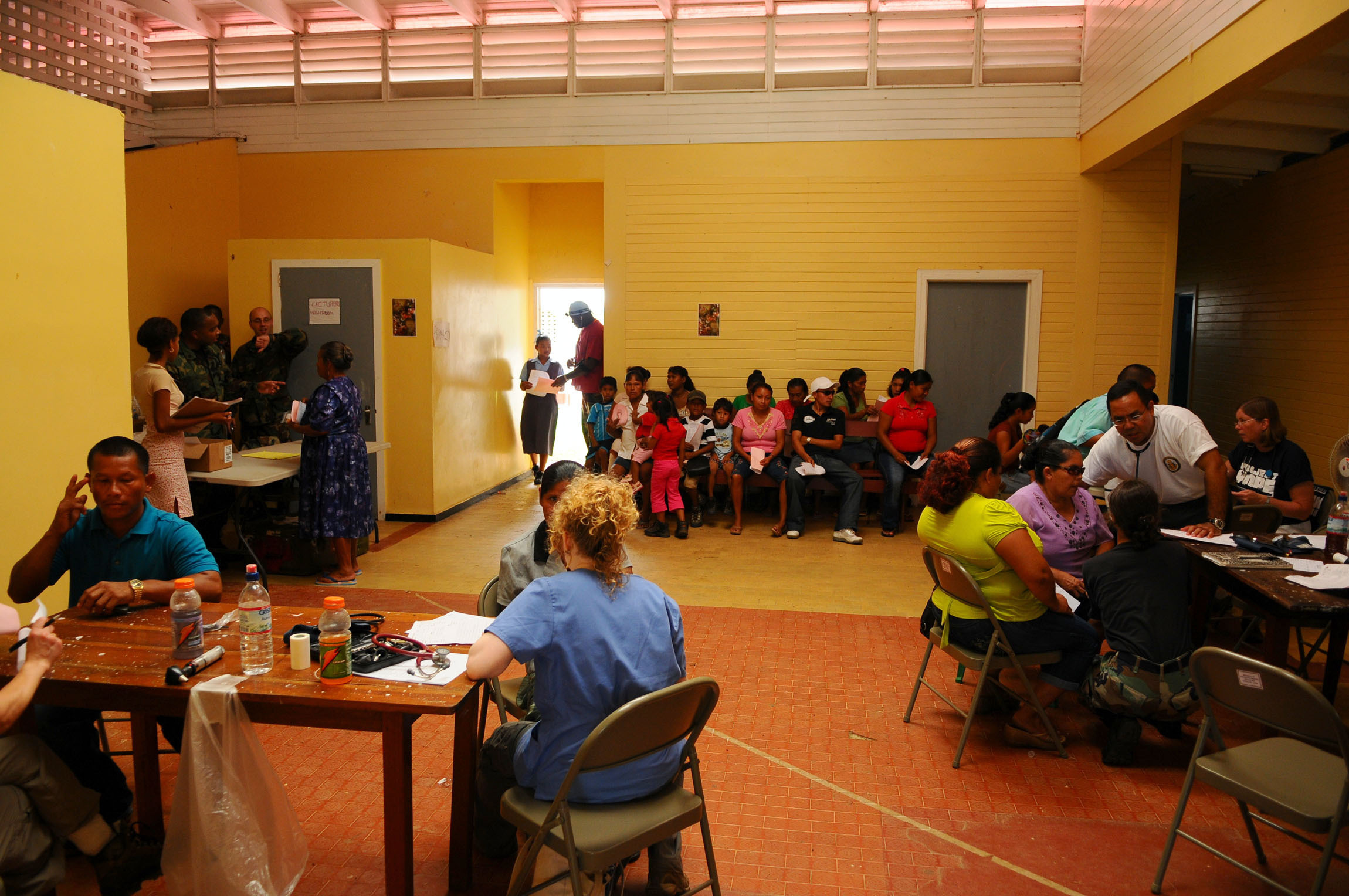 Locals wait to be seen by medical personnel from the amphibious assault ship USS Kearsarge during medical operations at the Kumaka District Hospital. Kearsarge is supporting the Caribbean phase of Continuing Promise 2008, an equal-partnership mission between the United States, Canada, the Netherlands, Brazil, Nicaragua, Colombia, Dominican Republic, Trinidad and Tobago and Guyana.